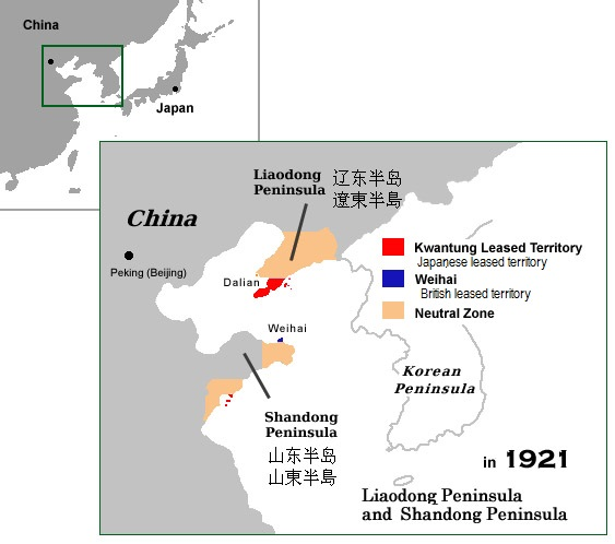 Kwantung Leased Territory and Weihai in 1921.